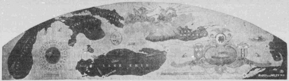 A mural from the SS Greater Detroit Depicting the Detroit and Cleveland Navigation Company's steamship routes throughout the Great Lakes as appeared in the Augusta Beacon on August 14, 1924.